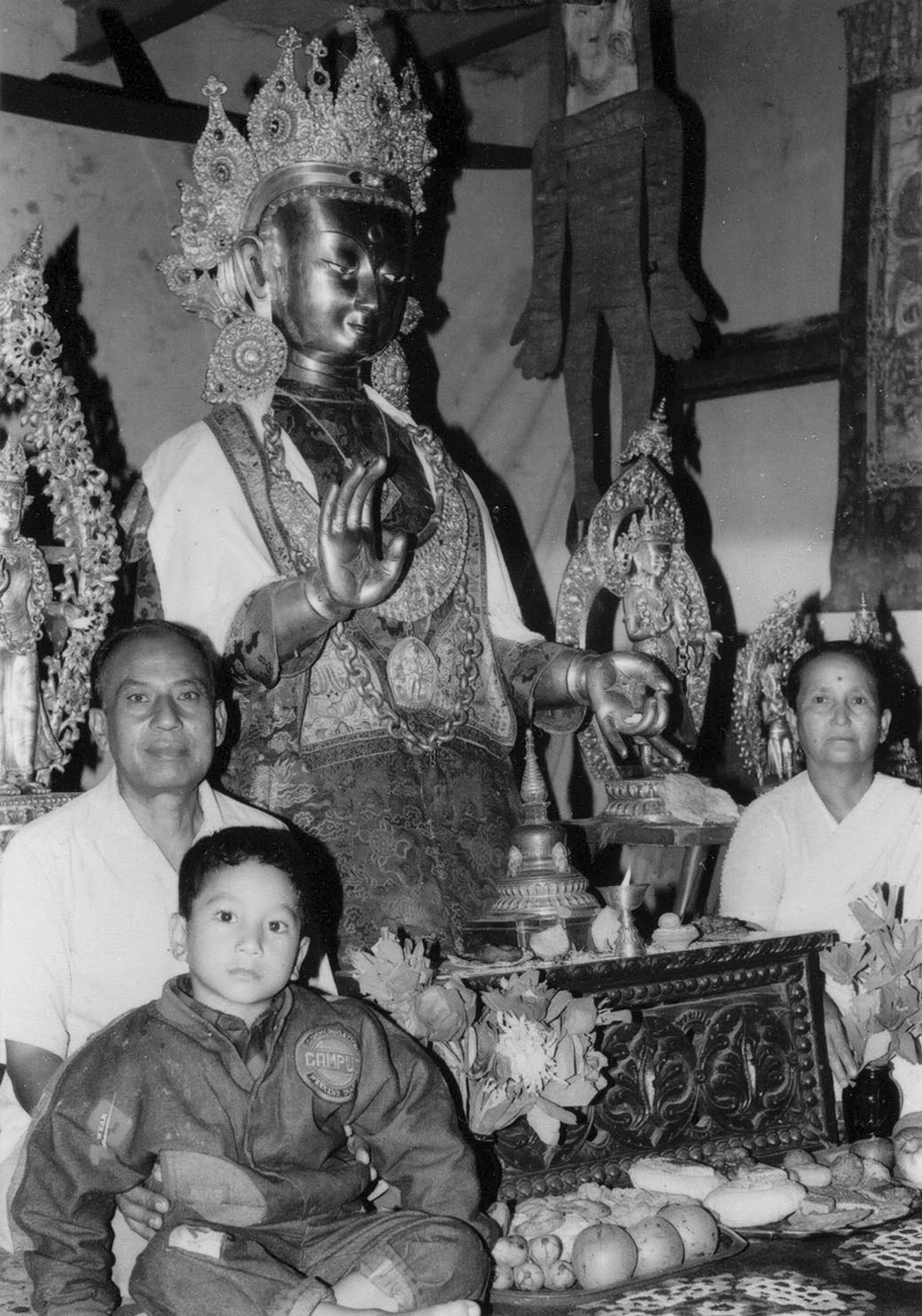 Tuladhar family displaying image of Dipankar Buddha in Kathmandu, Nepal.